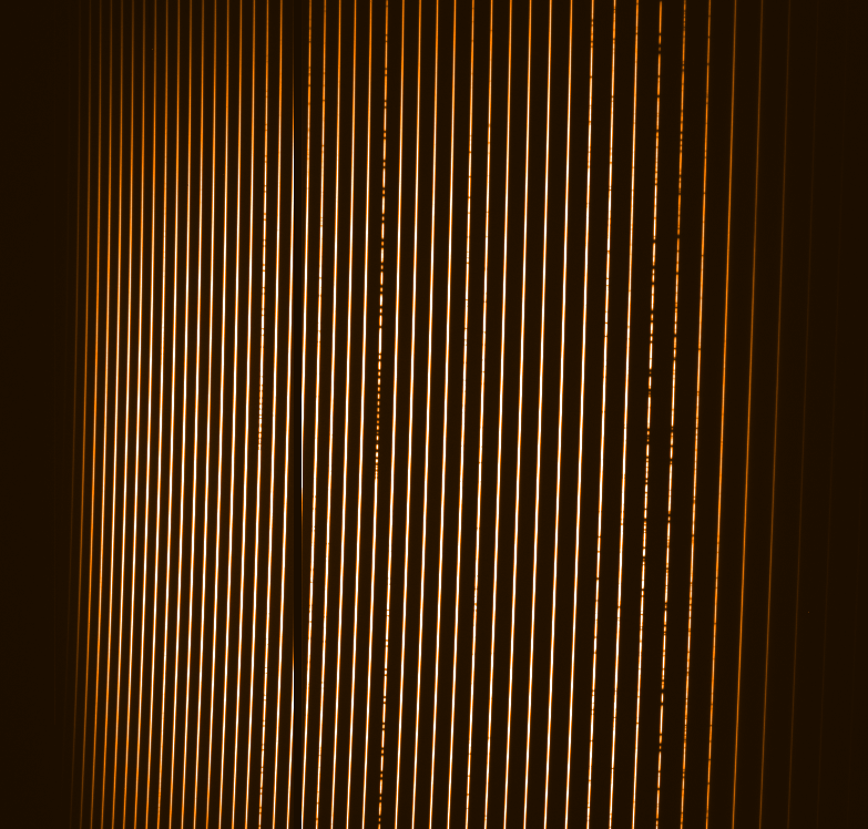 Image of a spectral scale taken with instrument EMMI, installed in the telescope of New Technology Telescope, in the La Silla Observatory.